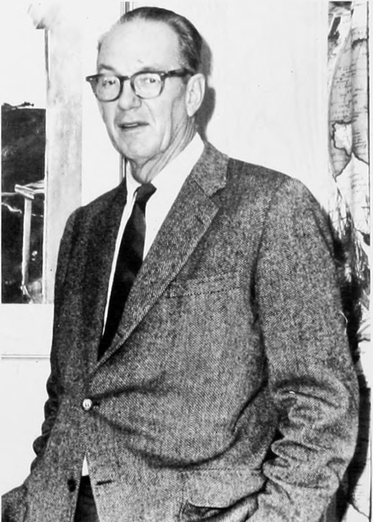 John M. Tiedtke, Second Vice President, Treasurer, and Business Manager of Rollins College.